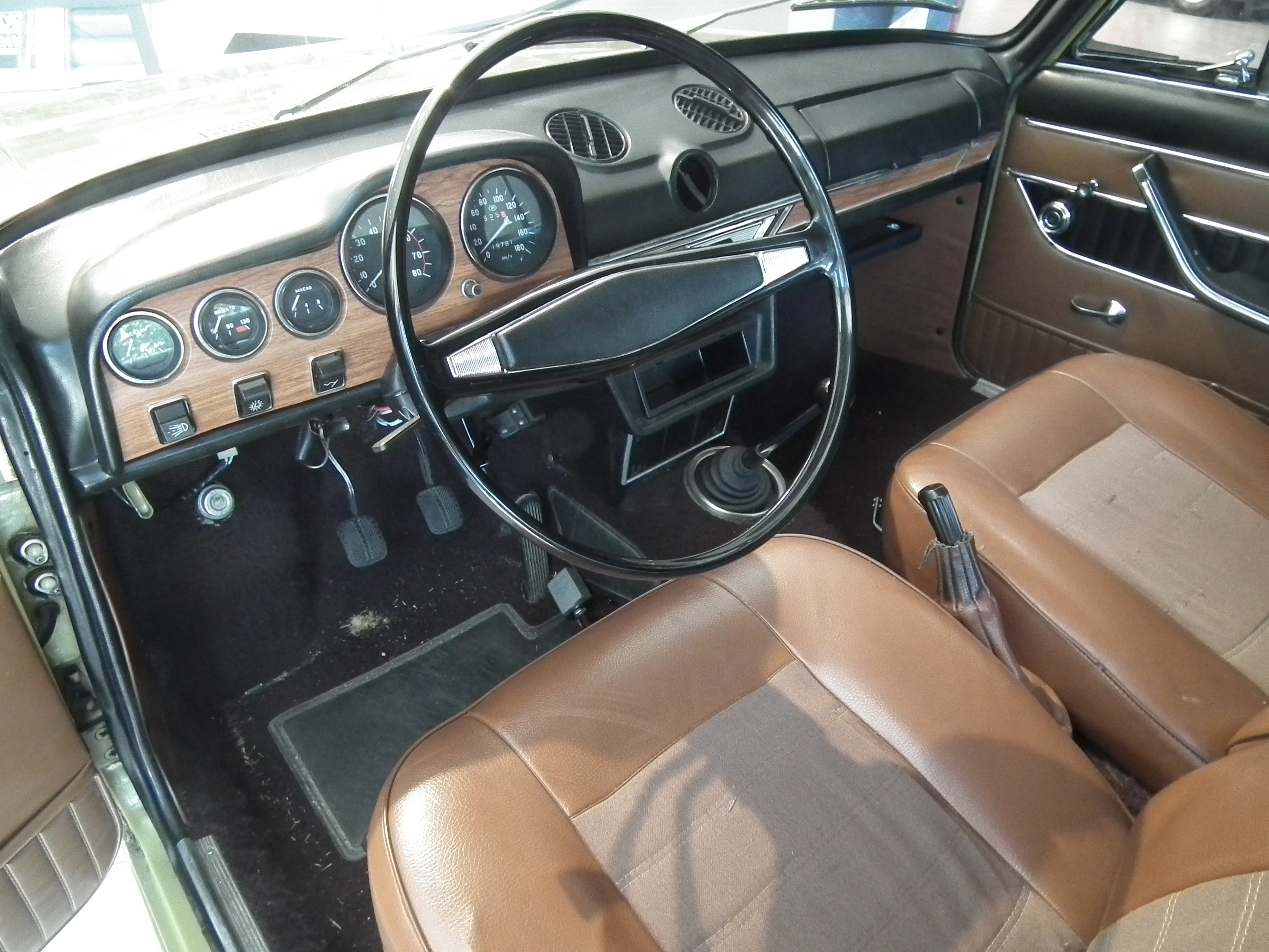 Soviet VAZ-2103 car dashboard (missing central clock). Dashboard is same as VAZ-2106, but the inner door panel is unique to 2103.